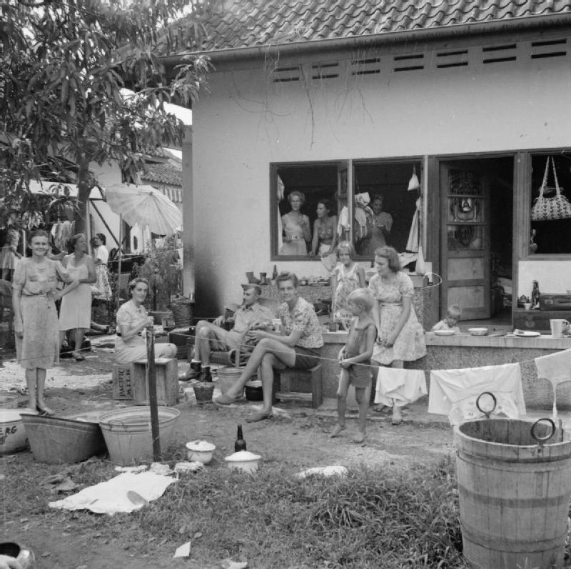 The Allied Occupation of Java, 1945 Civilian internees in Tjideng Prison Camp, Batavia.